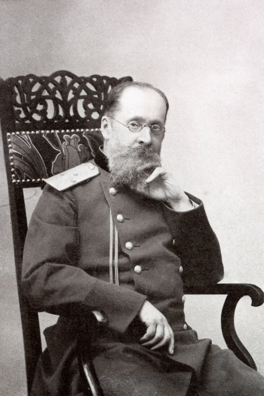 Portrait of César Cui